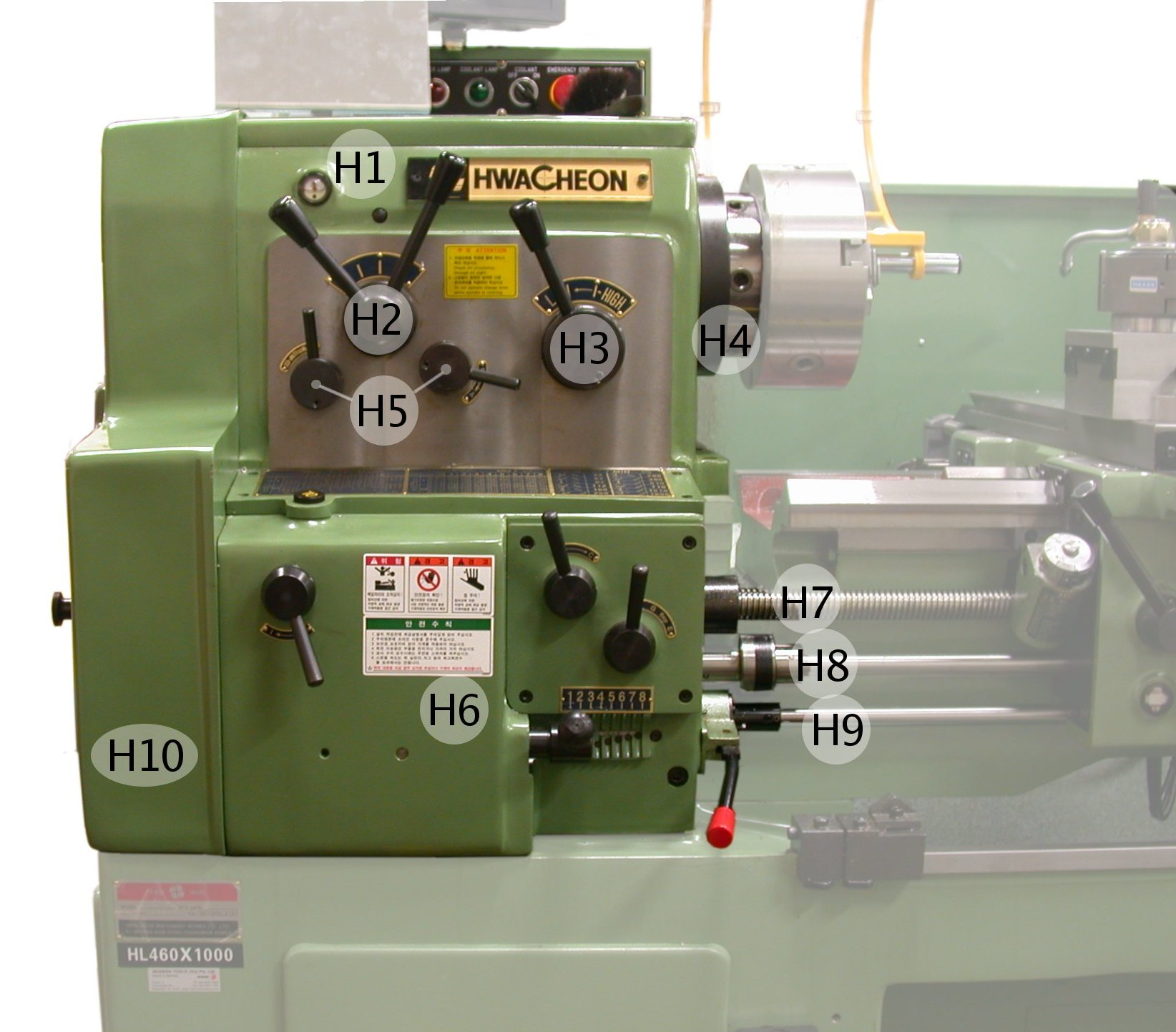 Highlighted headtock of Hwacheon centre lathe, H1: Geared head stock housing, H2: Intermediate gears lever, H3: High Low gear lever, H4: D6 camlock spindle, H5:Tumbler gears - forward/reverse and engage/disengage, H6: Quick change gear box with 4 selectors (3 levers), H7: Lead screw, H8: Feed screw, H9: Forward reverse switch, H10: Change gear cover